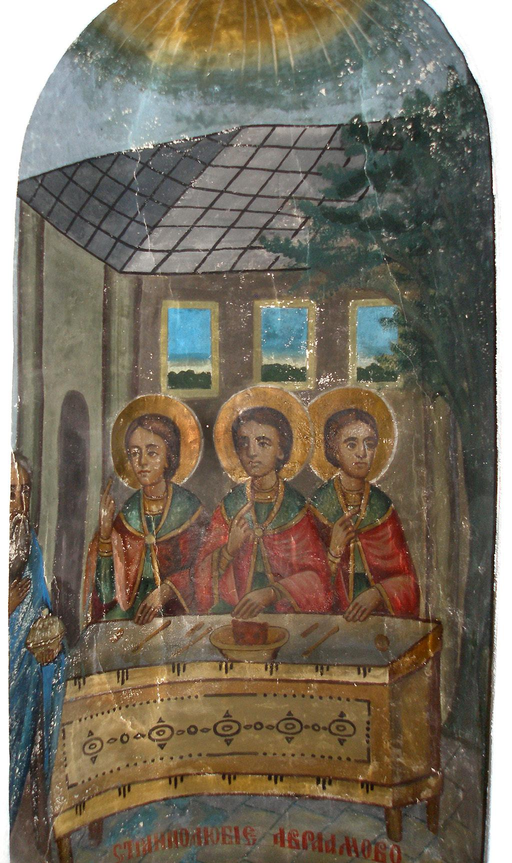 Saint Elijah Church in Belasitsa Freco 02